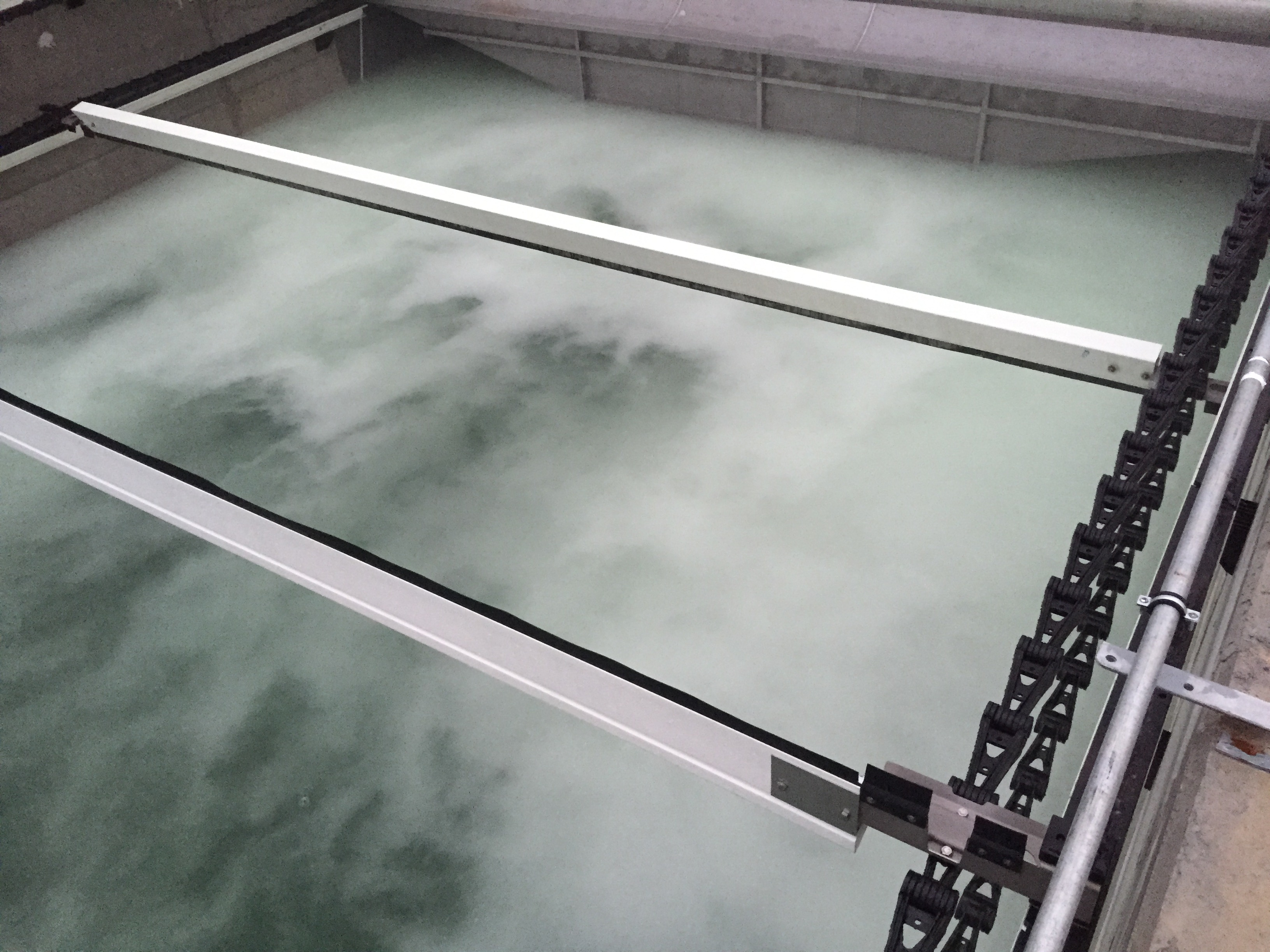 A distribution of bubble sizes between 20 and 50 microns is the necessary requirement for an optimum flotation result.